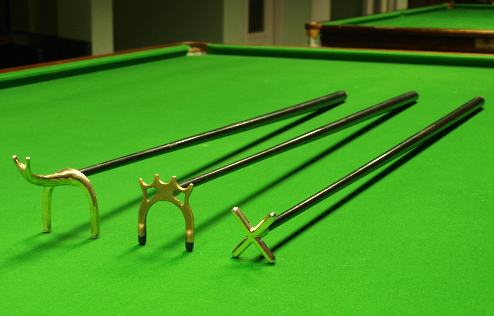 Three kinds of rests, mostly called the cross, the spider and the swan. Used for snooker and other cue sports